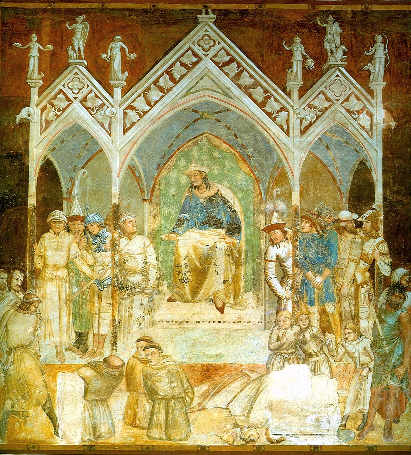 Lorenzetti_Ambrogio_martyrdom-of-the-franciscans-.jpg